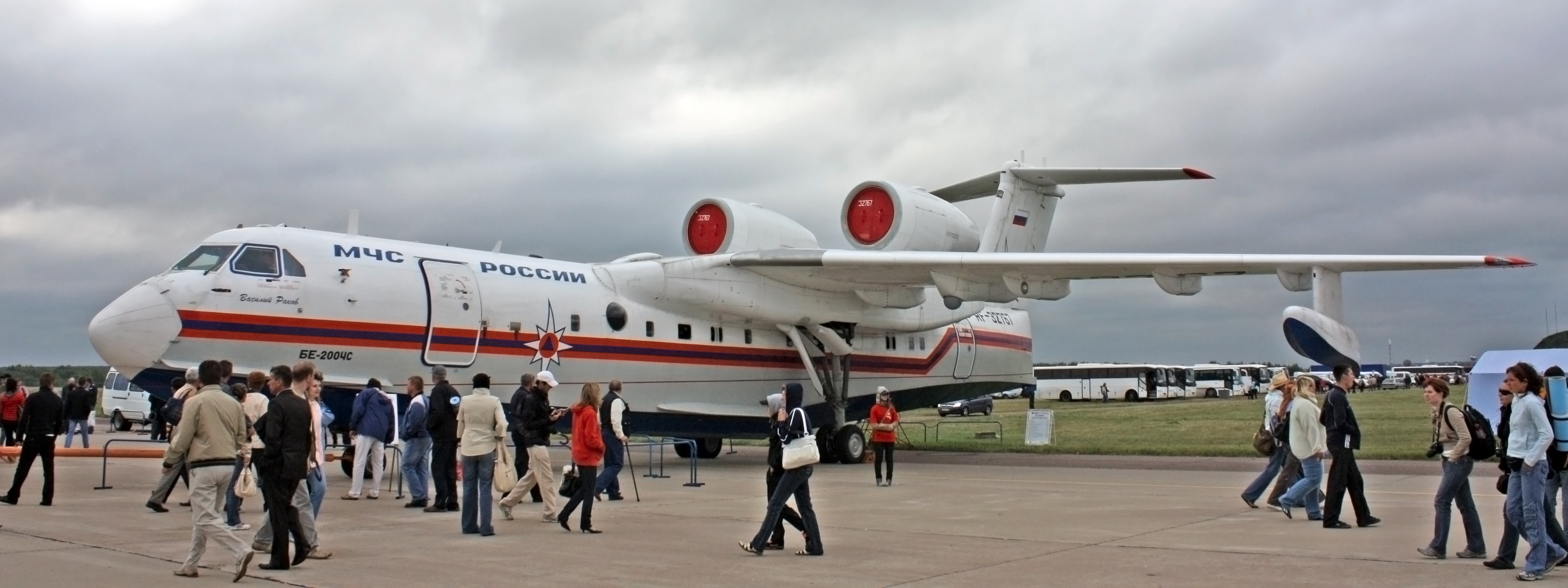 Beriew Be-200ChS (The international aerospace salon MAKS-2009)